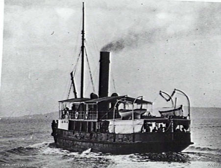 Stern port quarter view of the Australian auxiliary armed tug and tender Otter in 1946